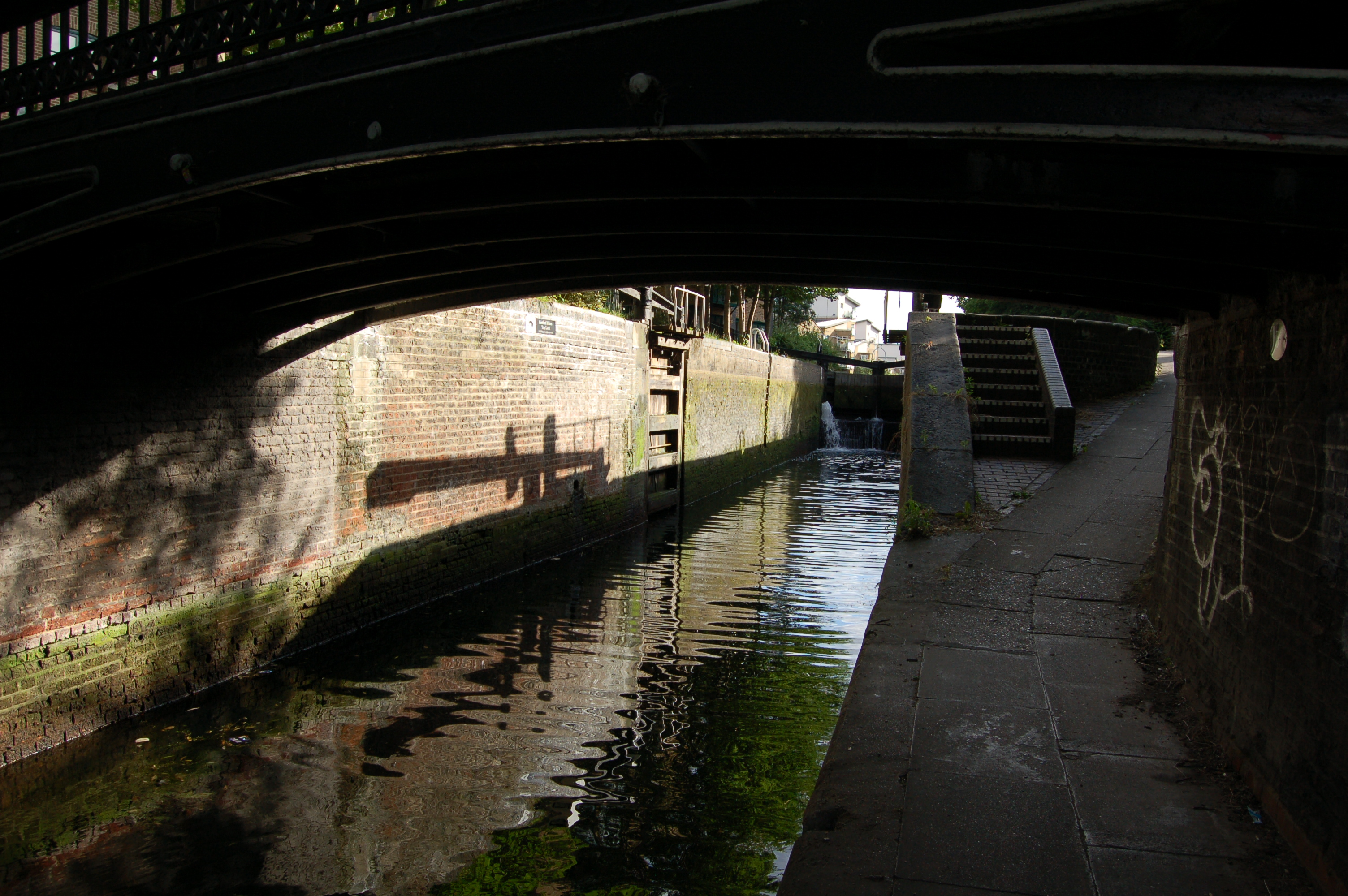 Old Ford Upper Lock on the Hertford Union Canal Use freely, pls attribute K B Thompson